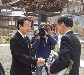 Shigeharu Aoyama and kuribayashi